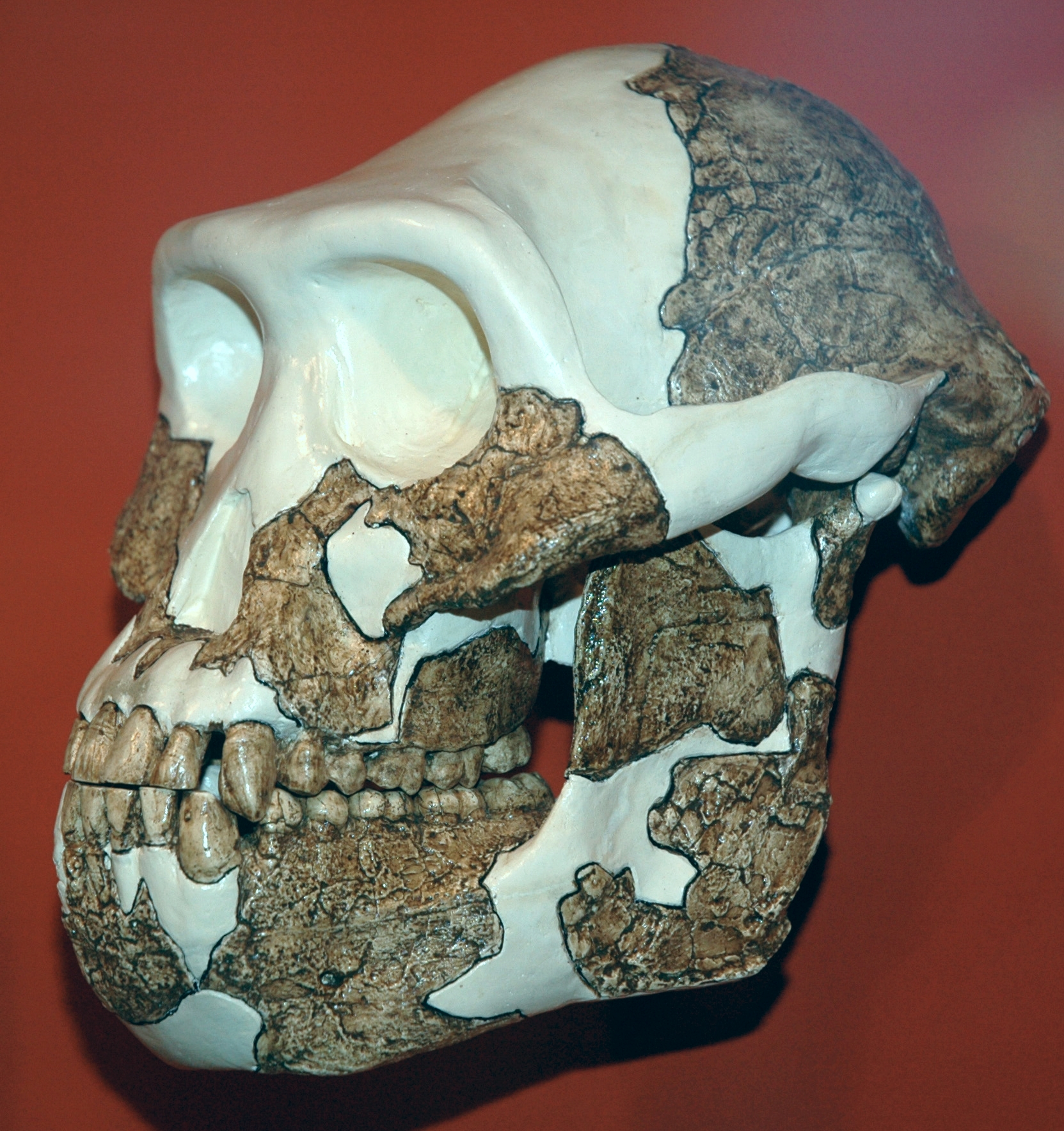 Australopithecus afarensis Johanson & White, 1978 - fossil hominid from the Pliocene of eastern Africa. (replica, public display, Cleveland Museum of Natural History, Cleveland, Ohio, USA)